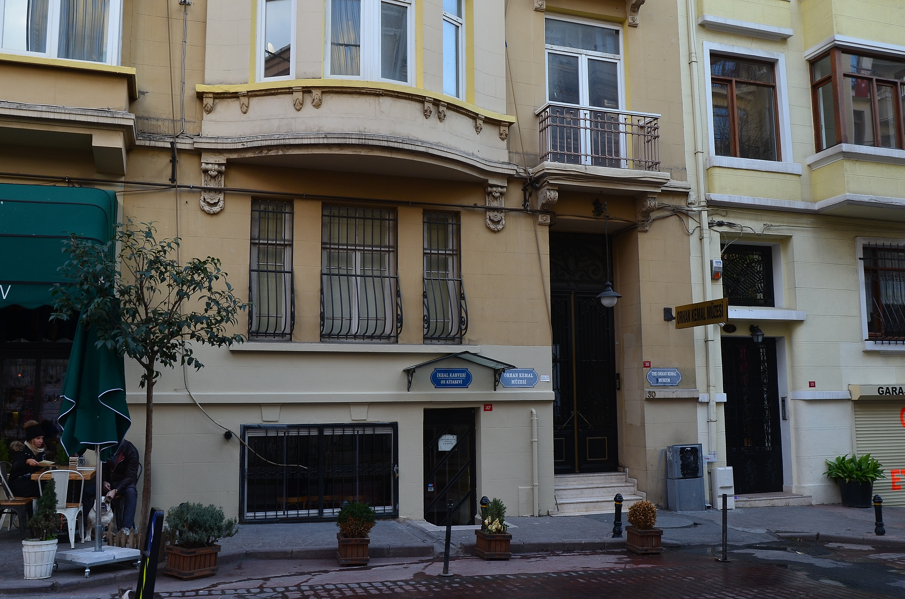 Orhan Kemal Literary Museum in Cihangir, Istanbul, Turkey